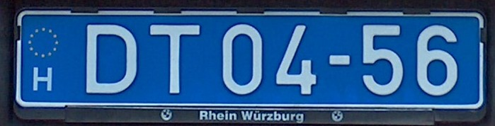 Diplomatic license plate from Hungary since 2004, 04 = Germany